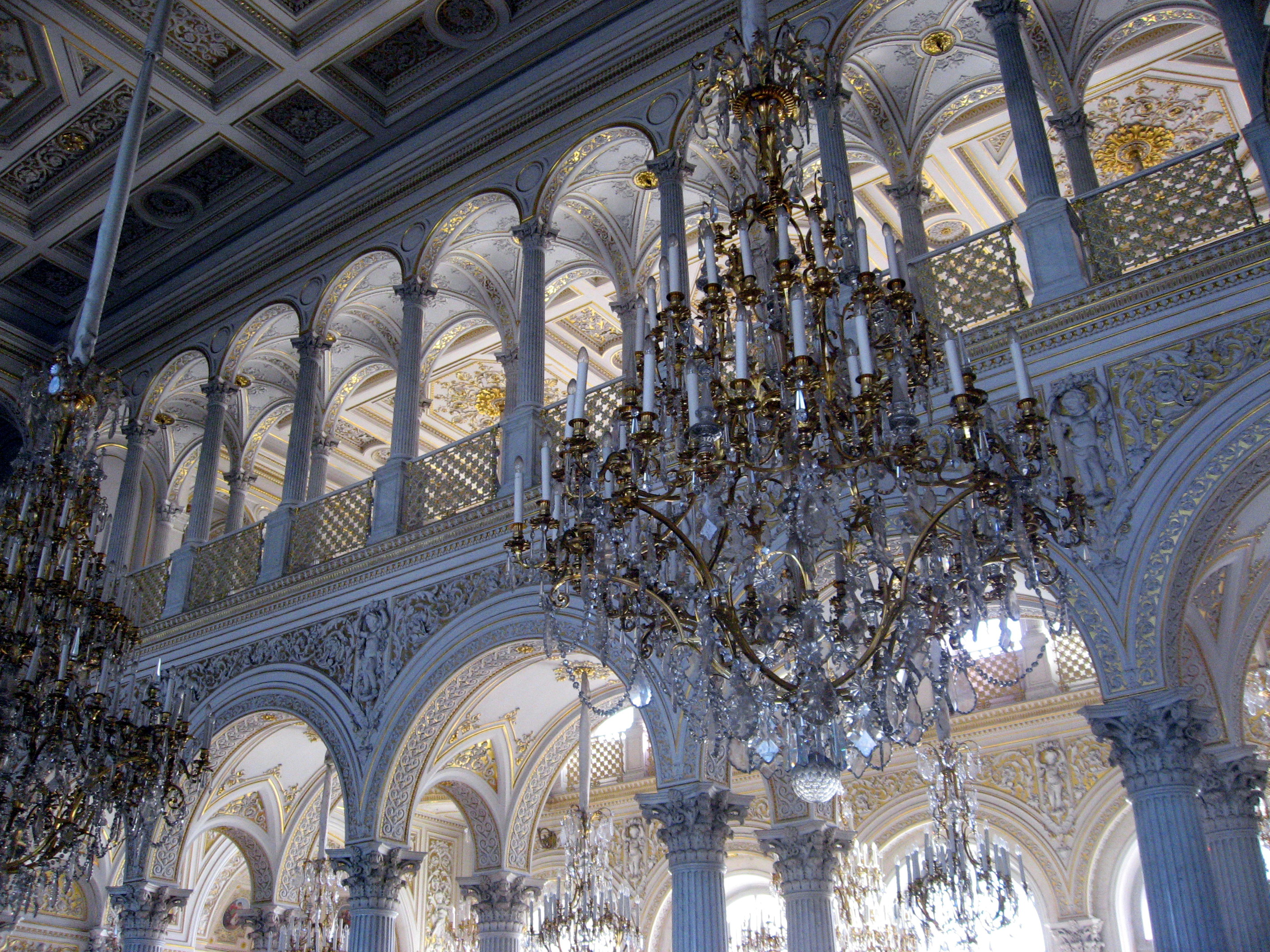 Ermitáž